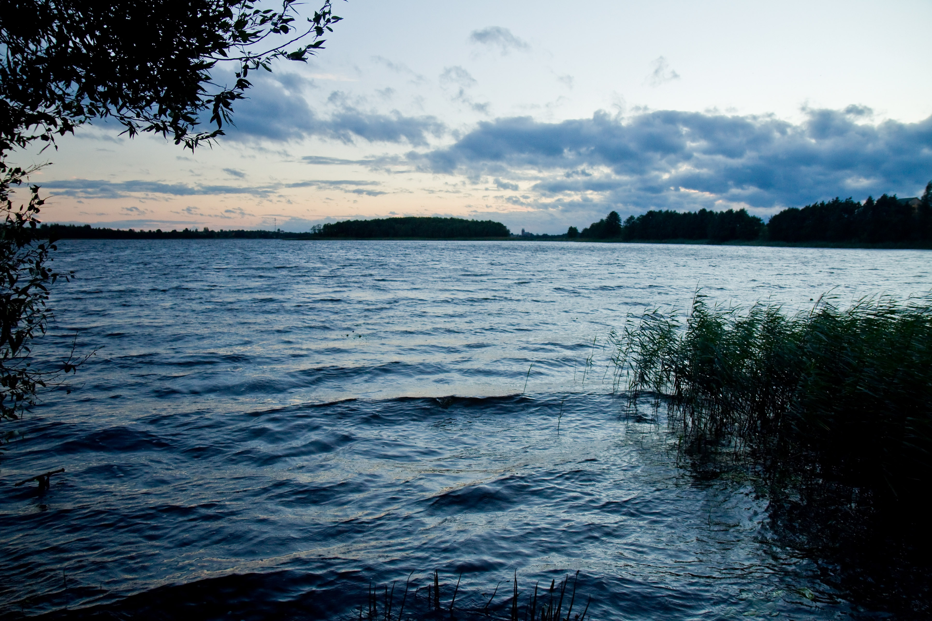 Ikaźń Lake. Brasłau district, Viciebsk province, Belarus.